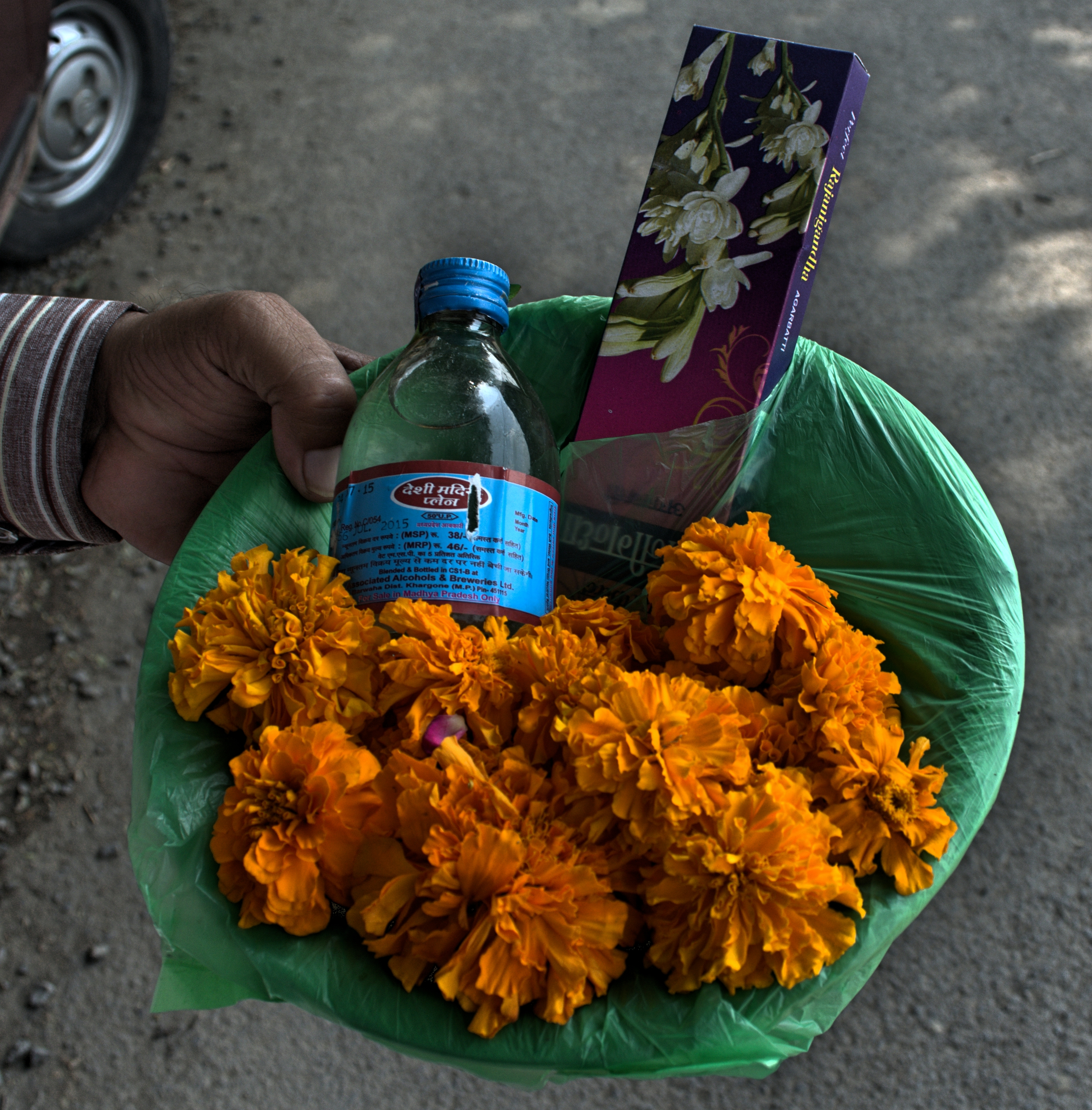 A basket of offerings at the Kal Bhairav temple in Ujjain, India. The basket includes desi daru (country liquor), a pack of incense sticks and marigold flowers.